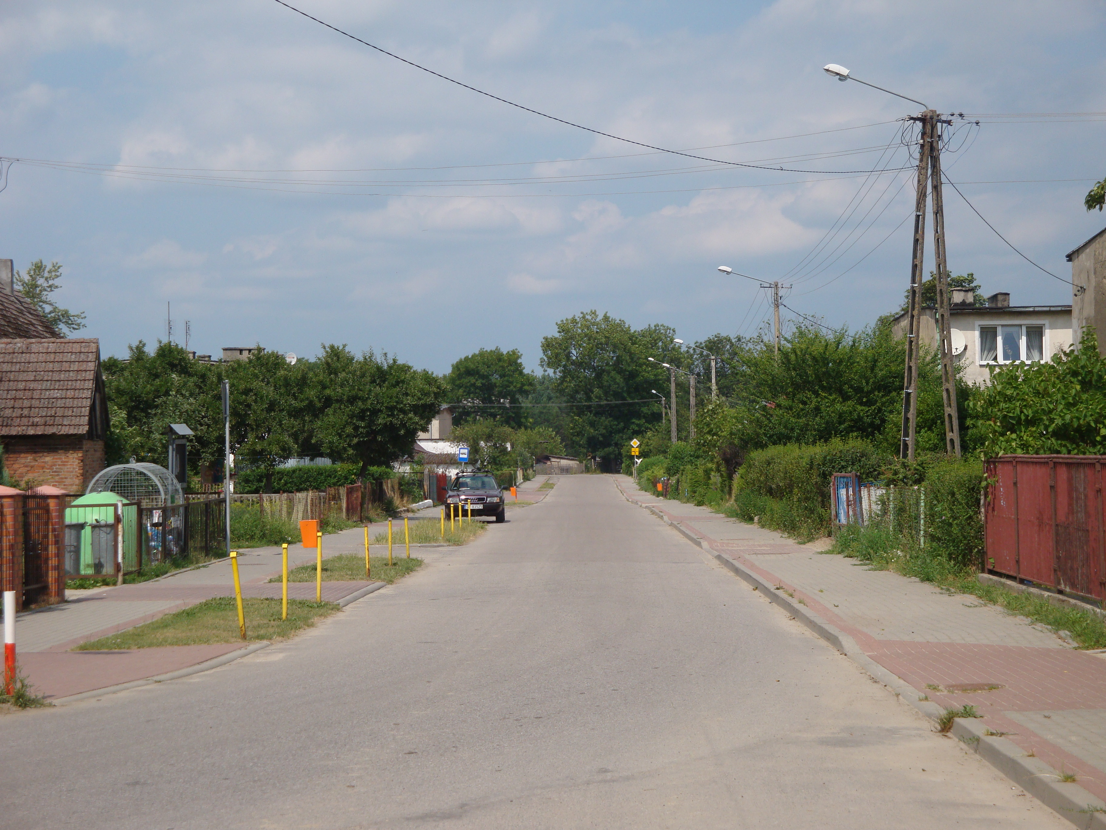 Kukowo-village in Pomeranian Voivodeship, Poland